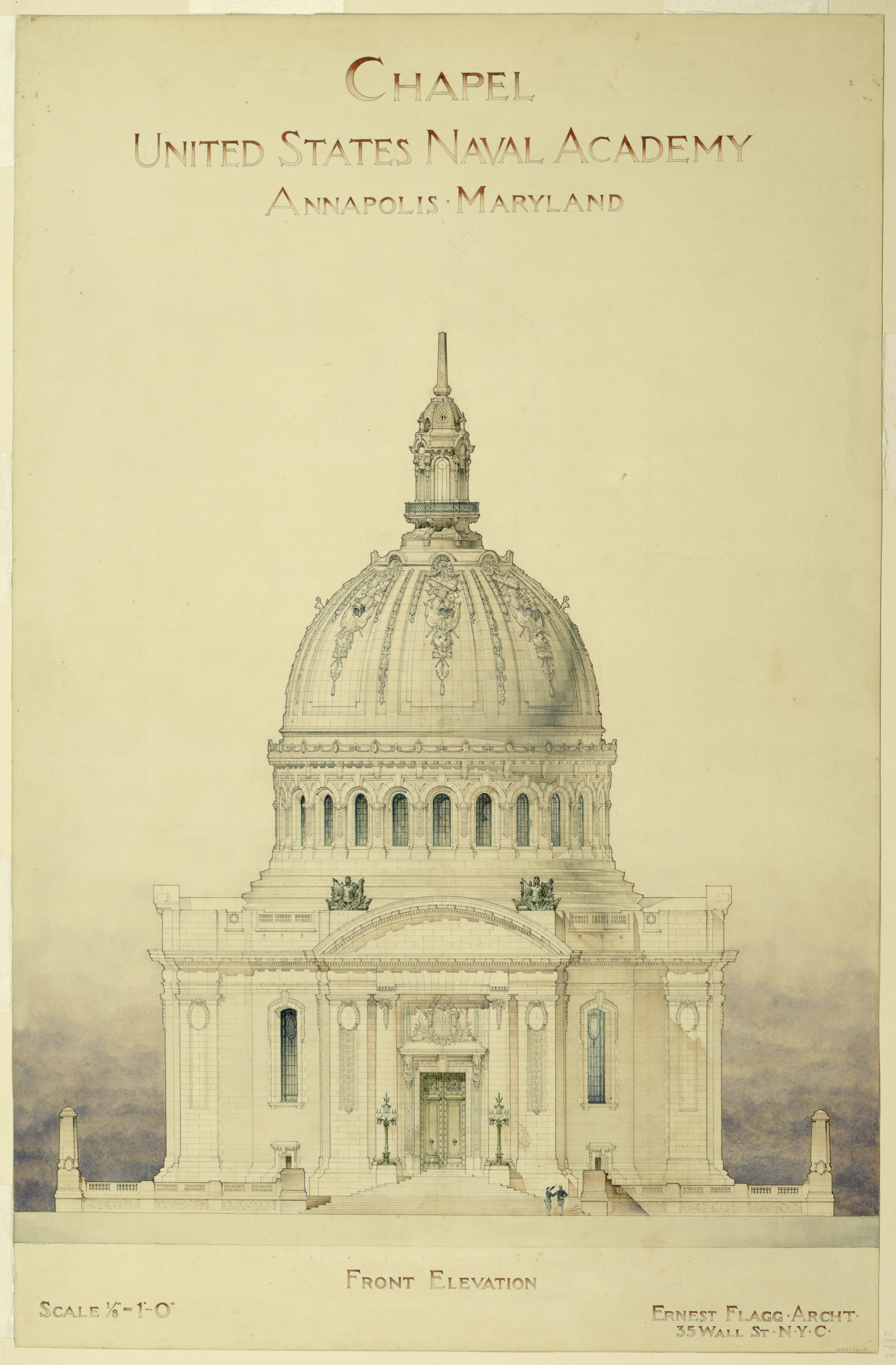 Front Elevation of Chapel, United States Naval Academy, Annapolis, Maryland